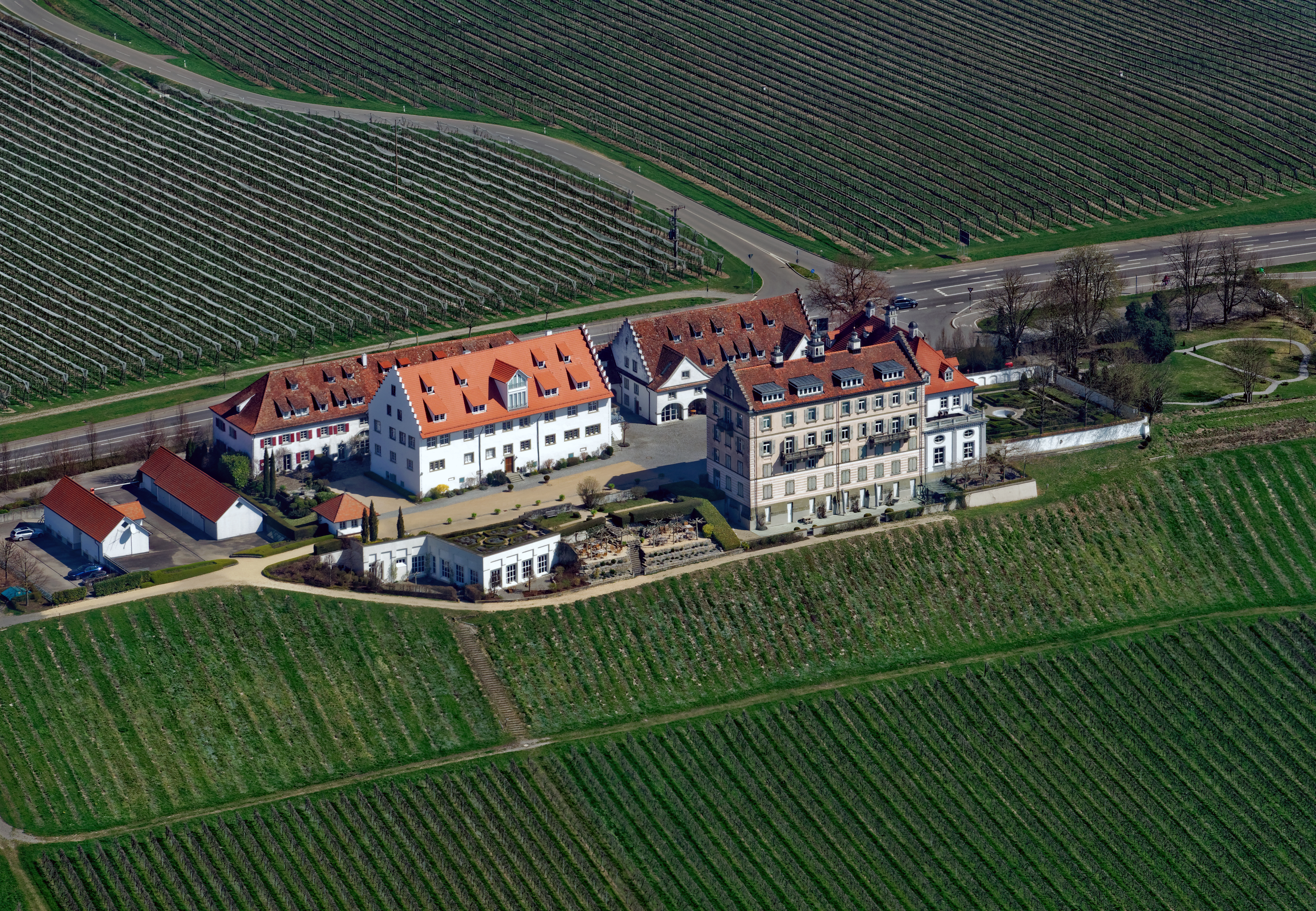 Immenstaad on Lake Constance seen from the Zeppelin.